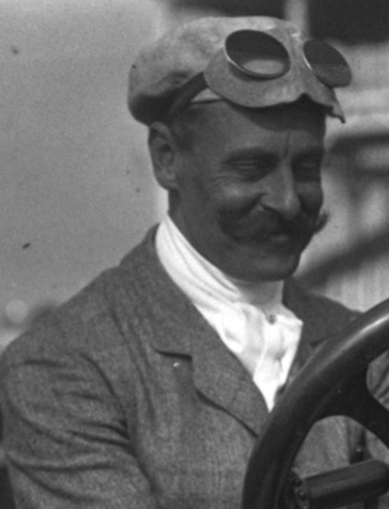 George Heath in his Panhard-Levassor at the 1908 French Grand Prix at Dieppe.